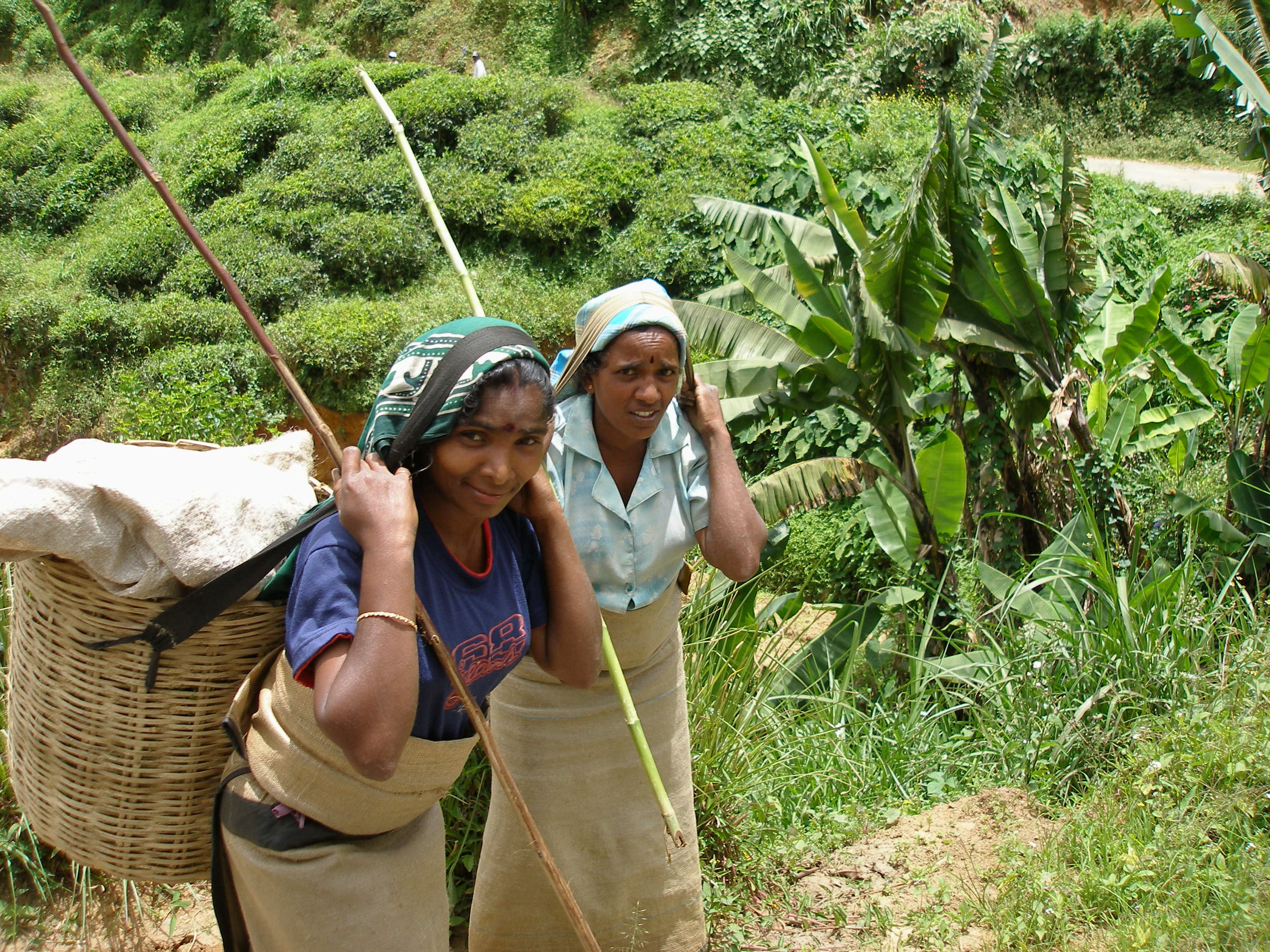 Tea estate workers in Sri Lanka.